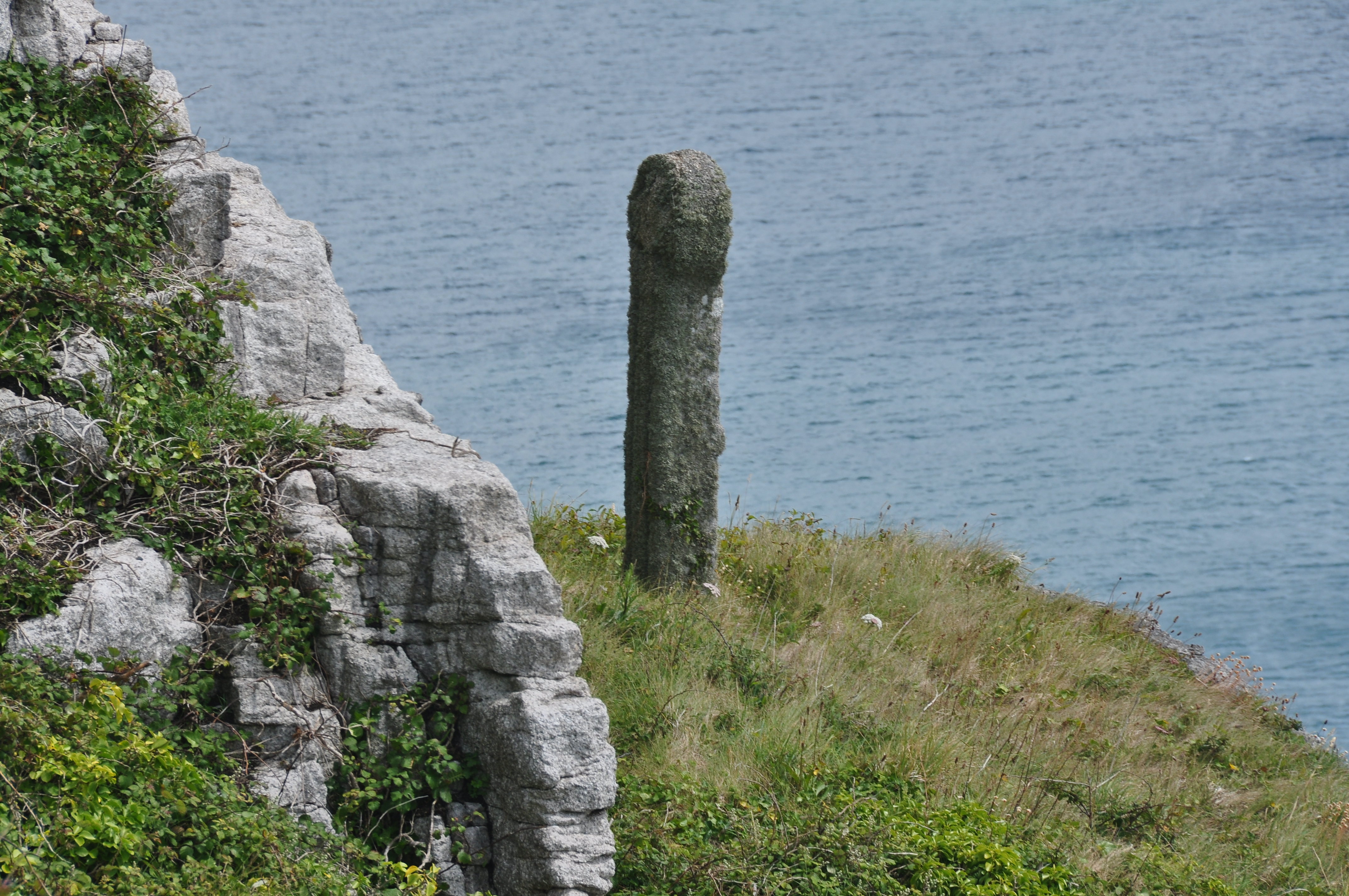 Cross on St Michael's Mount